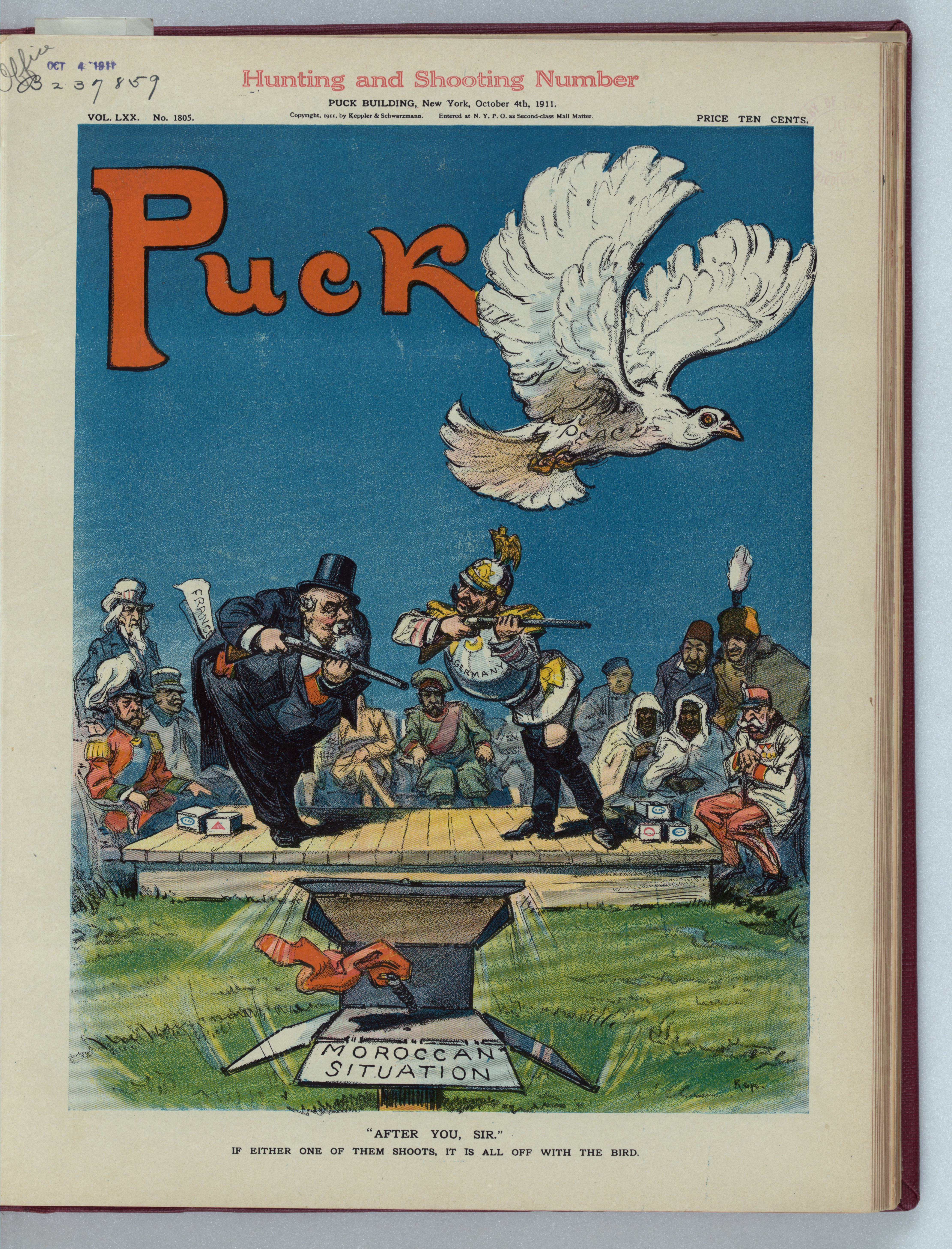 Title: "After you, sir" / Kep. Abstract/medium: 1 photomechanical print : offset, color.. Summary: Illustration shows a shooting match between France and Germany, a white bird labeled "Peace" has just been released from a trap labeled "Moroccan Situation" and the contestants are each waiting for the other to shoot first. Gathered around the shooting platform are rulers from European and Asian countries, among them are Uncle Sam, Edward VII, King of Great Britain, and Nicholas II, Emperor of Russia.